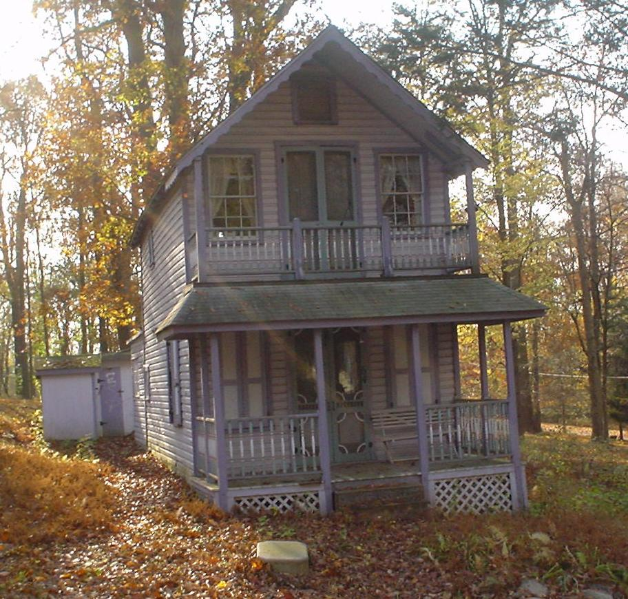 Chester Heights Campground, in Chester Heights, PA. On NRHP.